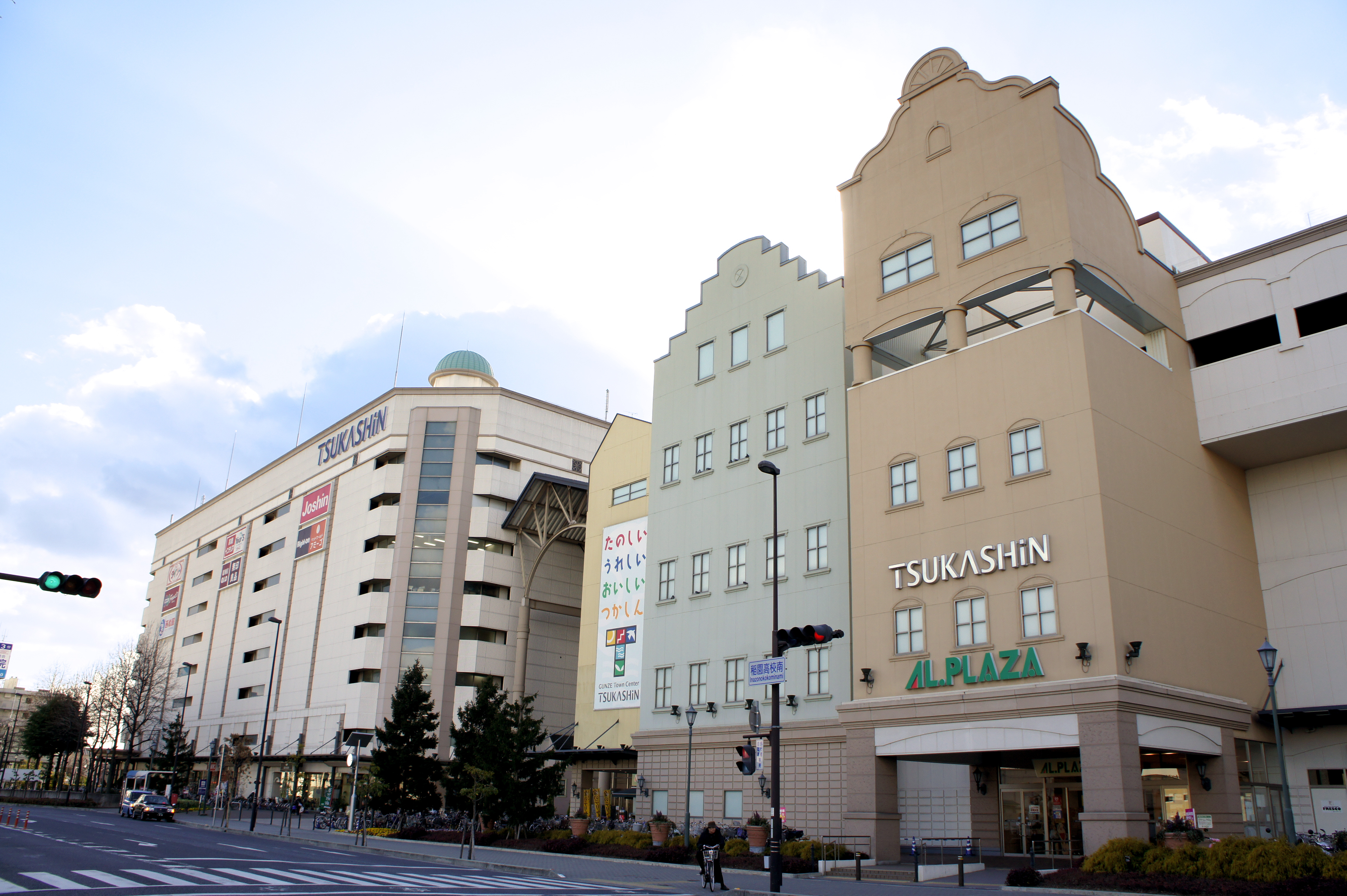 GUNZE Town Center TSUKASHIN, 4-8-1 Tsukaguchihonmachi Amagasaki-City Hyogo Japan.